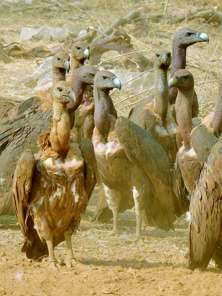 Photograph by Shantanu Kuveskar Location : Mangaon, Raigad, Maharashtra, India